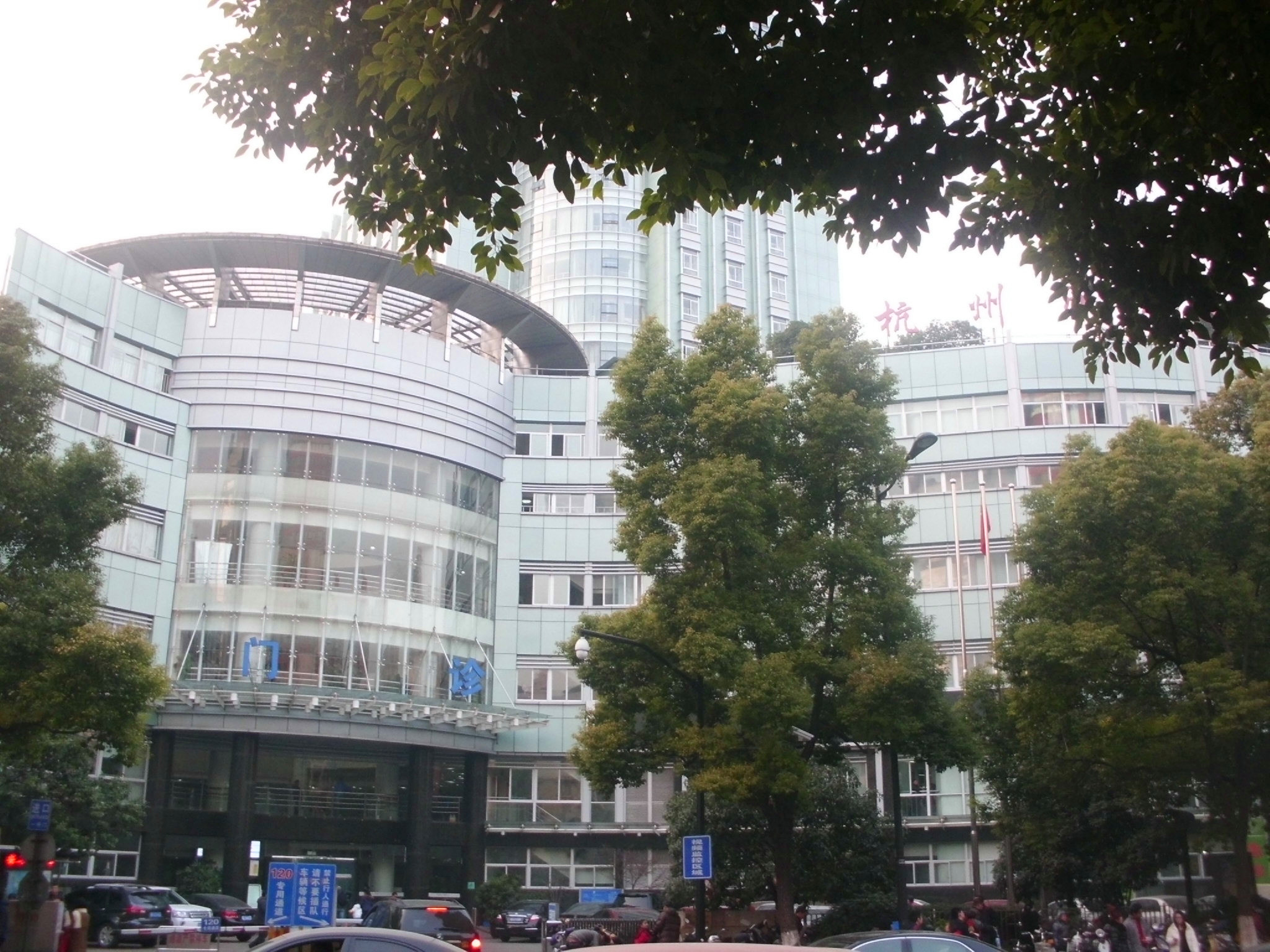 The first people's hospital of hangzhou